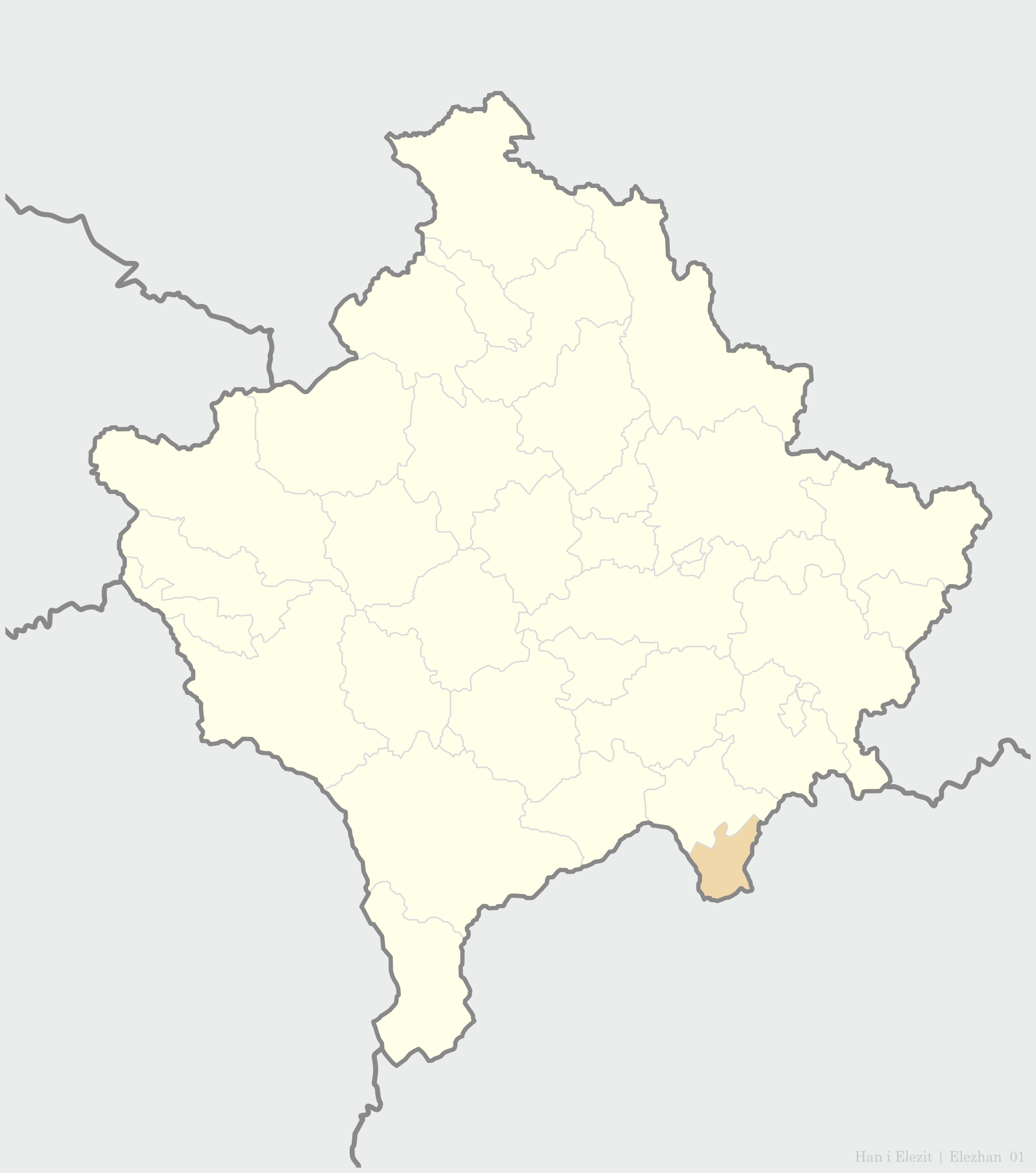 Municipality of Deneral Jankovic map